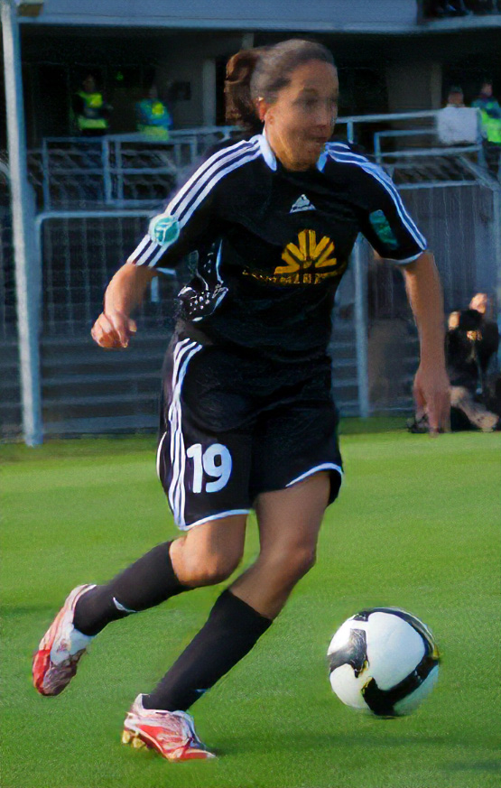 sports, football, women, germany, spain